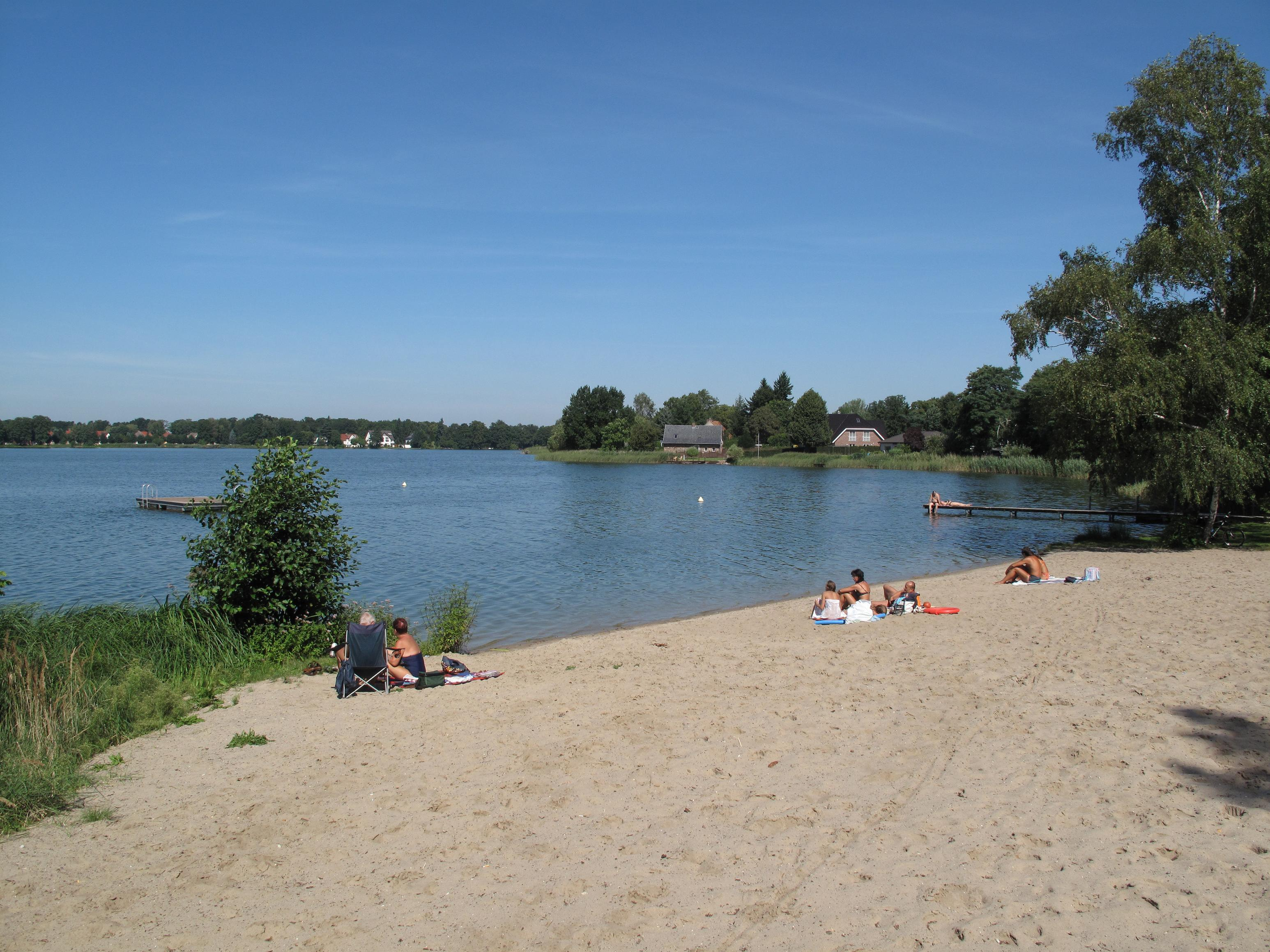 Beach at the eastern bank of the Großer Müllroser See. The lake is situated between the town Müllrose in the north and the municipality Mixdorf in the south in the District Oder-Spree, Brandenburg, Germany. The lake covers 1,32 km² and is a part of the Schlaube Valley Nature Park.